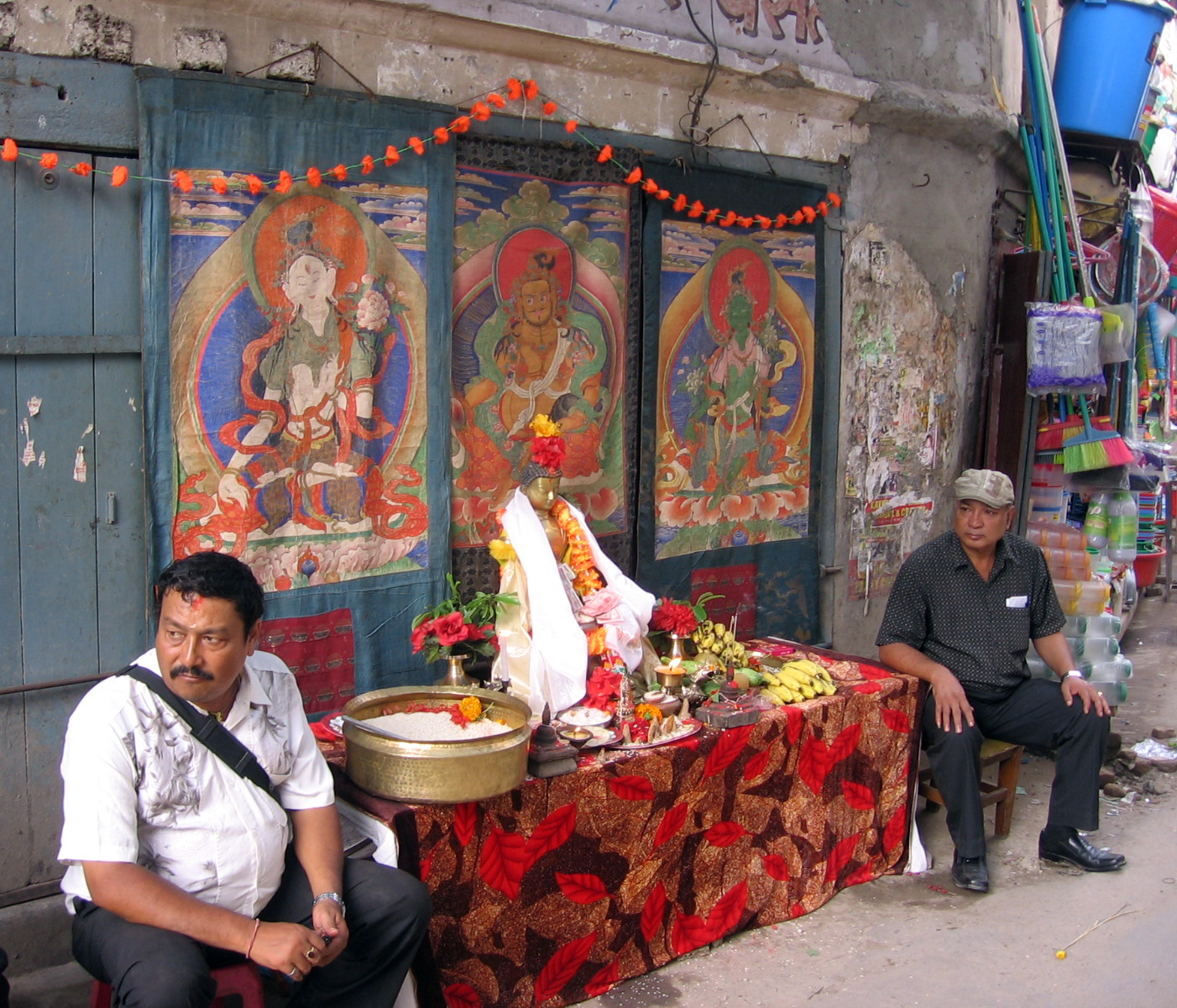 Devotees wait for priests to come and receive alms on the Buddhist festival of Panjaran in Kathmandu.